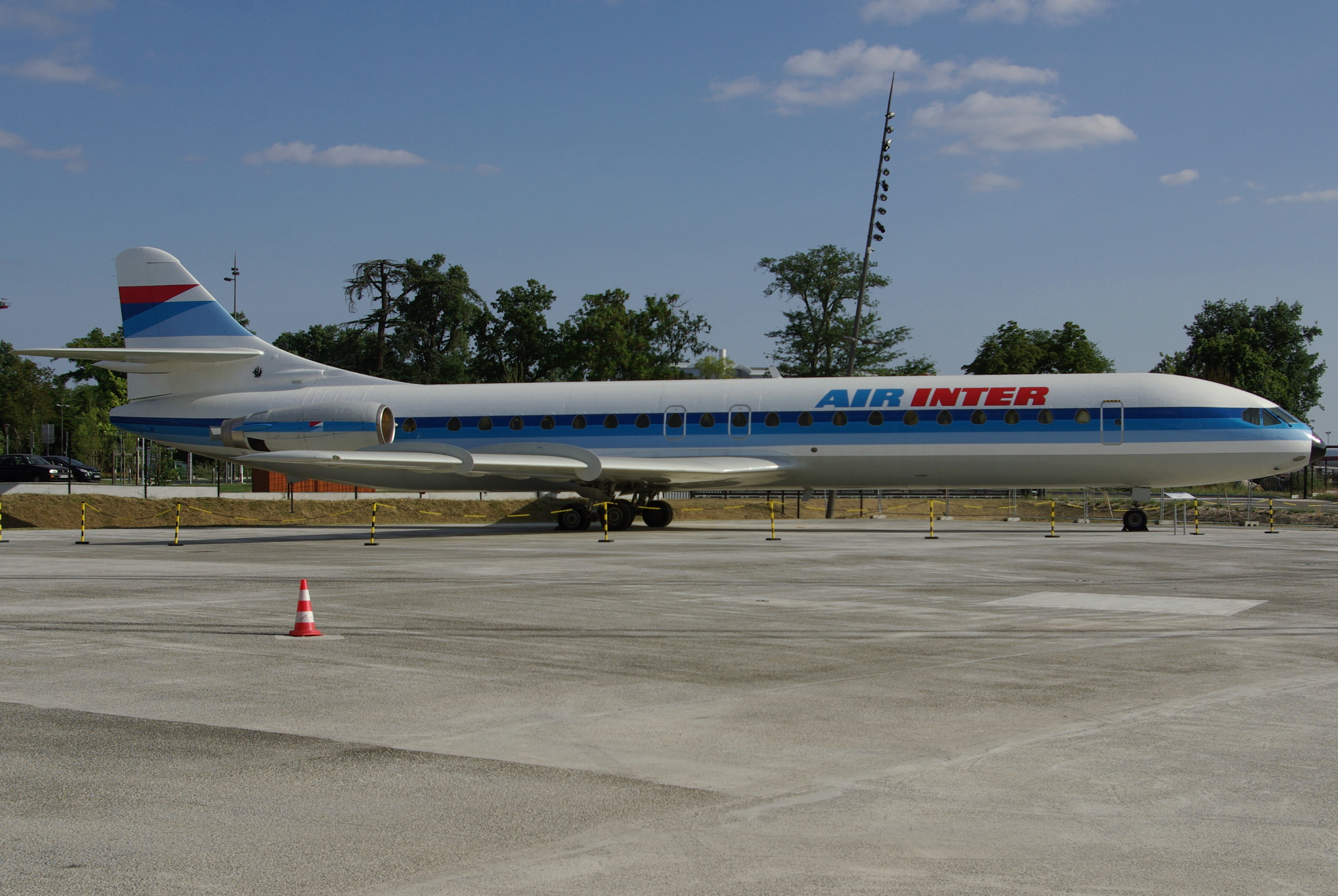 Caravelle 12 of Air Inter F-BTOE displayed on the outside parking of Aeroscopia.